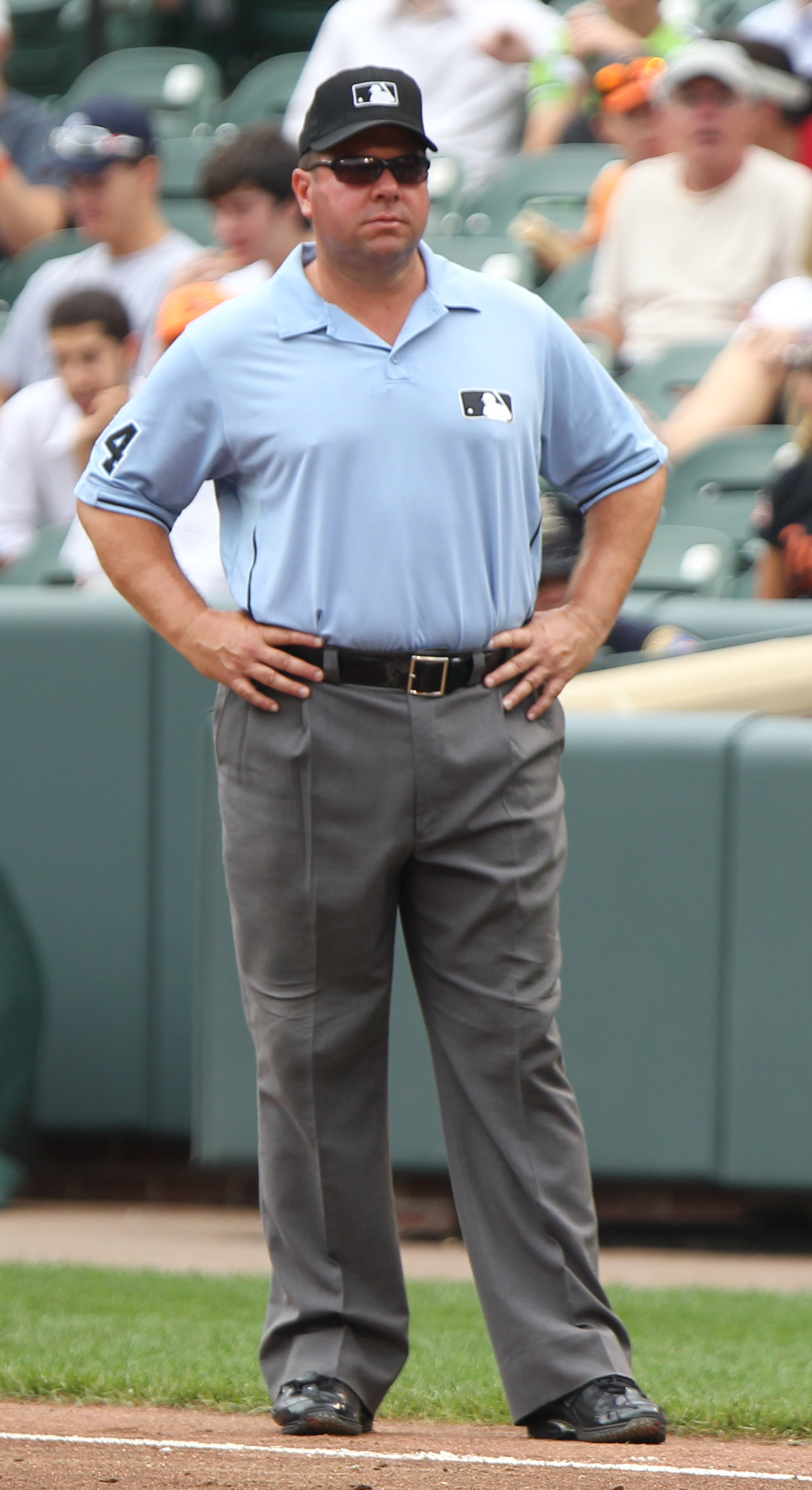 Blue Jays at Orioles September 1, 2011